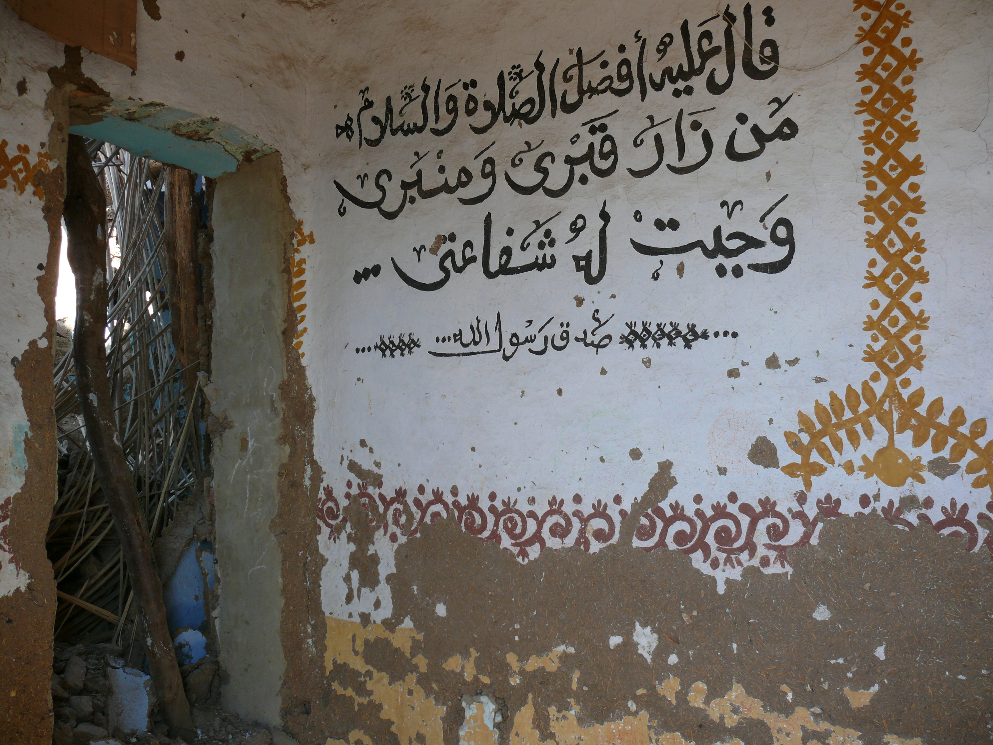 Sheikh Abd el-Qurna, Egypt